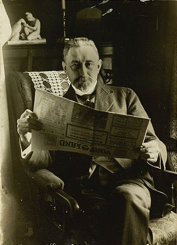 Carl Quistgaard Muusmann (1863-1936), Danish journalist and writer